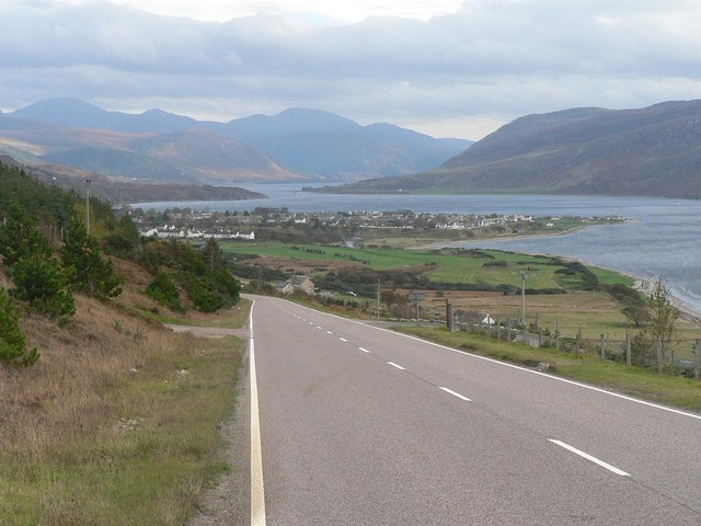 The A835 approaches Ullapool from the north Having just turned a corner, this magnificent view of Ullapool and Loch Broom reveals itself as the road straightens.